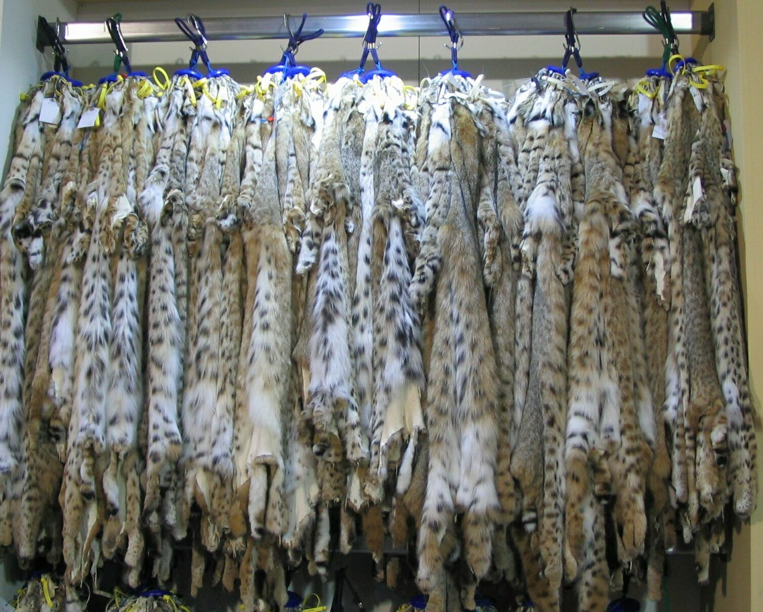 Canadian bobcat fur-skins